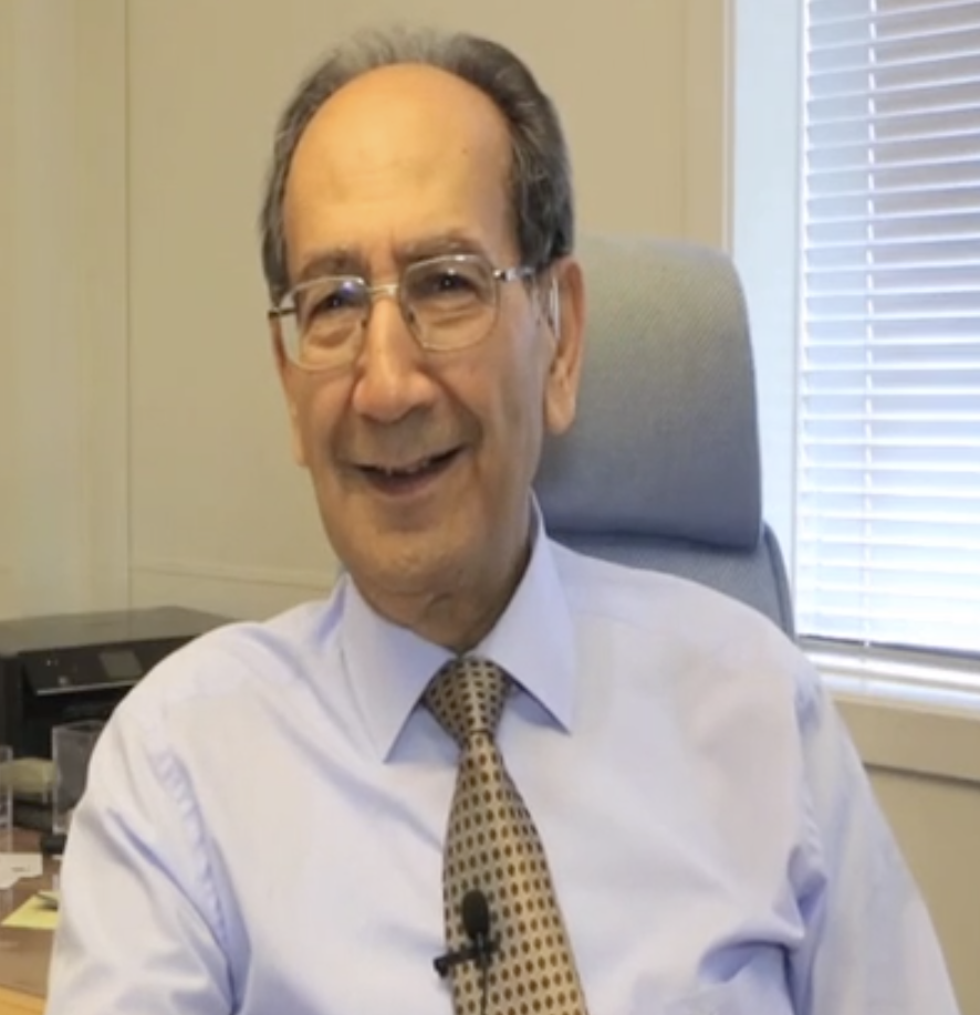 Farouk Al-Kasim in 2013.